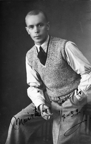 Viljo Vesterinen finnish musicant